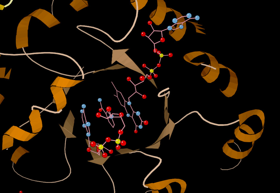 Ribbon diagram of the active site of E. coli MTHFR. The flavin cofactor (top) is shown interacting with the bound substrate NADH. Image drawn from PDB 1ZPT.